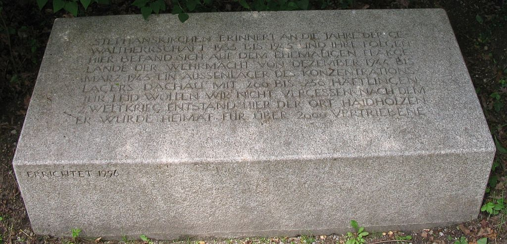 memorial tablet for those who were imprisoned in Haidholzen during the second world war